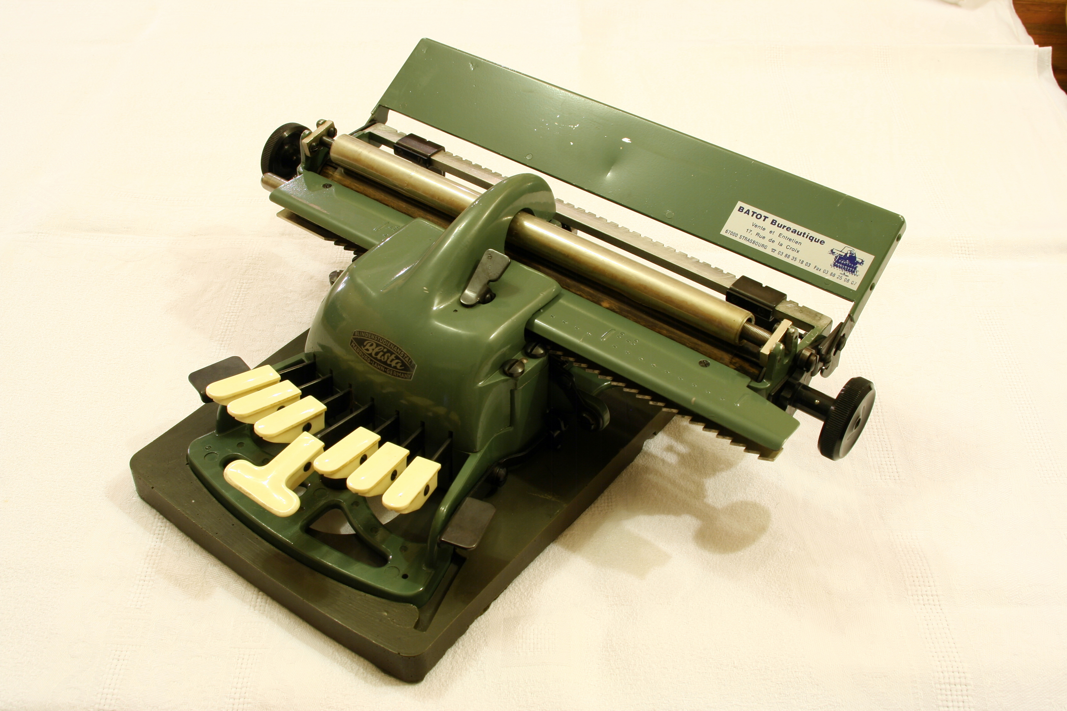 A Blista Braille typewriter.